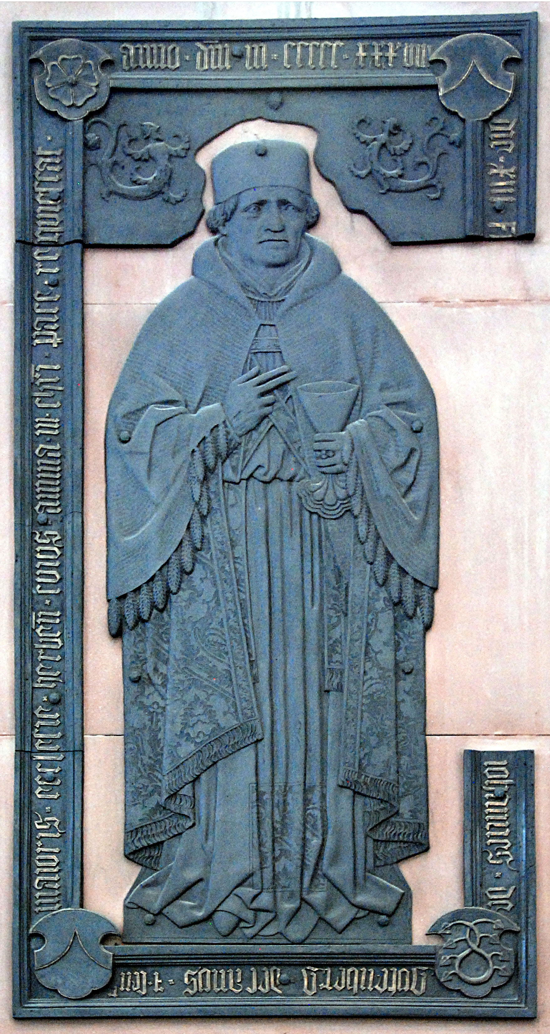 Johann von Guttenberg († 1538), Bronzeplatte, Domherr Wuerzburg Cathedral